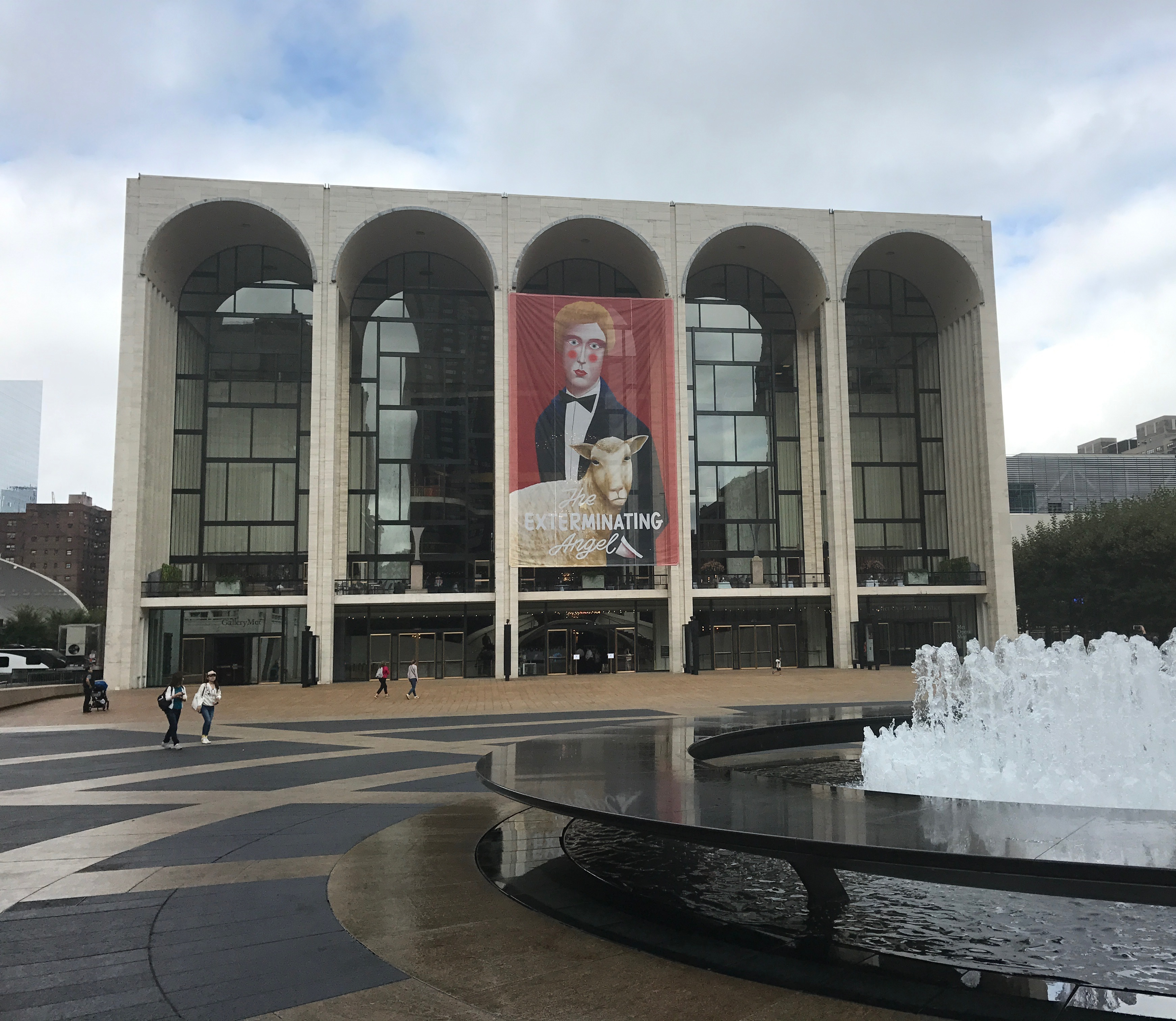 Metropolitan Opera - exteriorSite: Metropolitan Opera